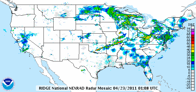 RIDGE National NEXRAD Radar Mosaic of St. Louis Tornado on at 8:08 PM local (CDT, April 22, 2011)/1:08 UTC April 23)